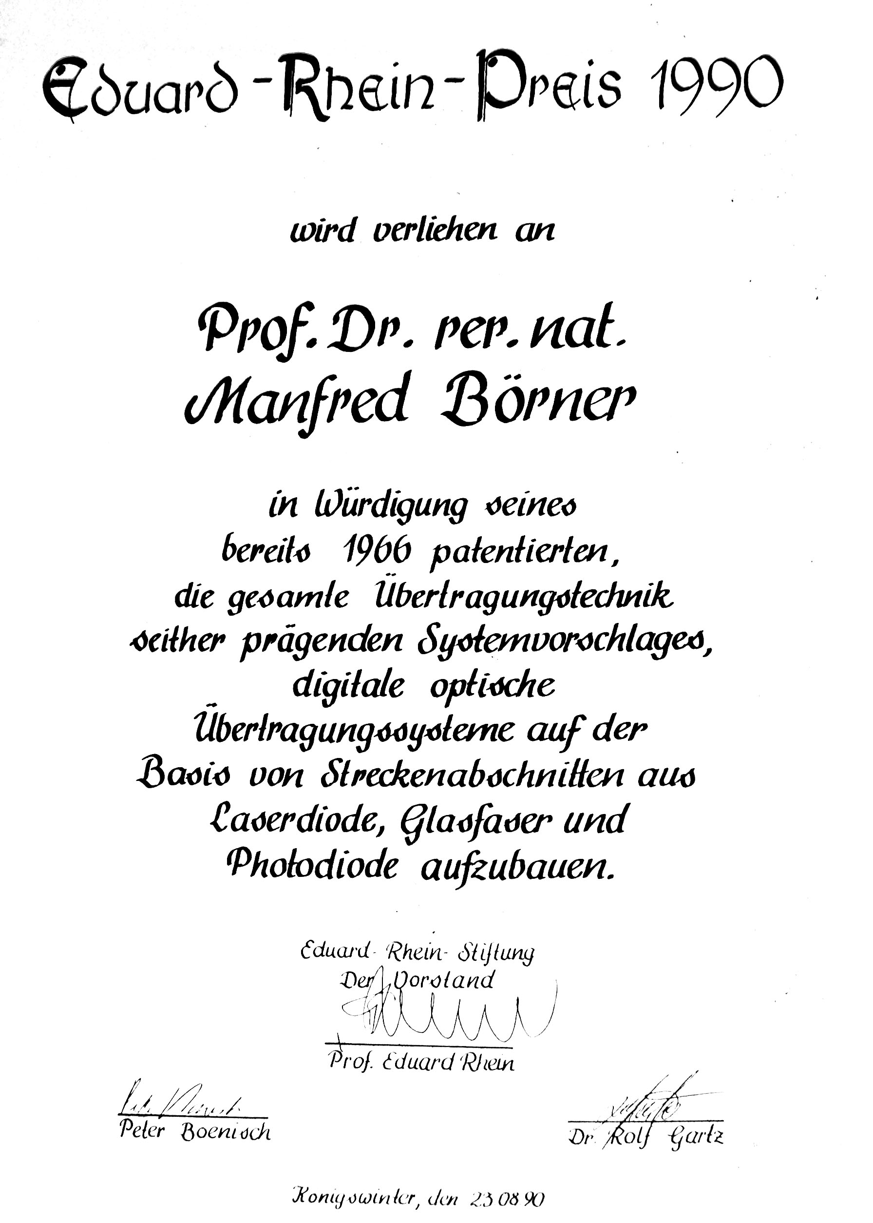 Eduard-Rhein-Preis 1990 to Manfred Börner